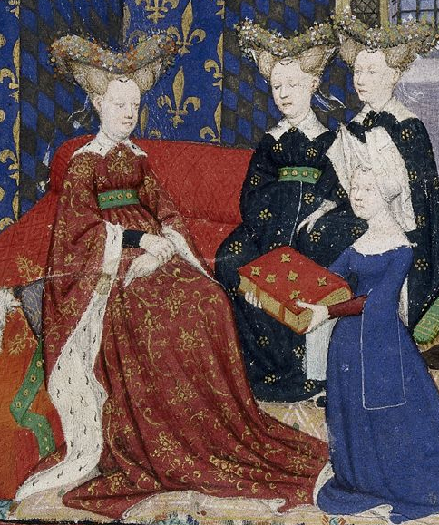 Detail of a presentation miniature with Christine de Pisan presenting her book to queen Isabeau of Bavaria. Illuminated miniature from The Book of the Queen (various works by Christine de Pizan), BL Harley 4431.